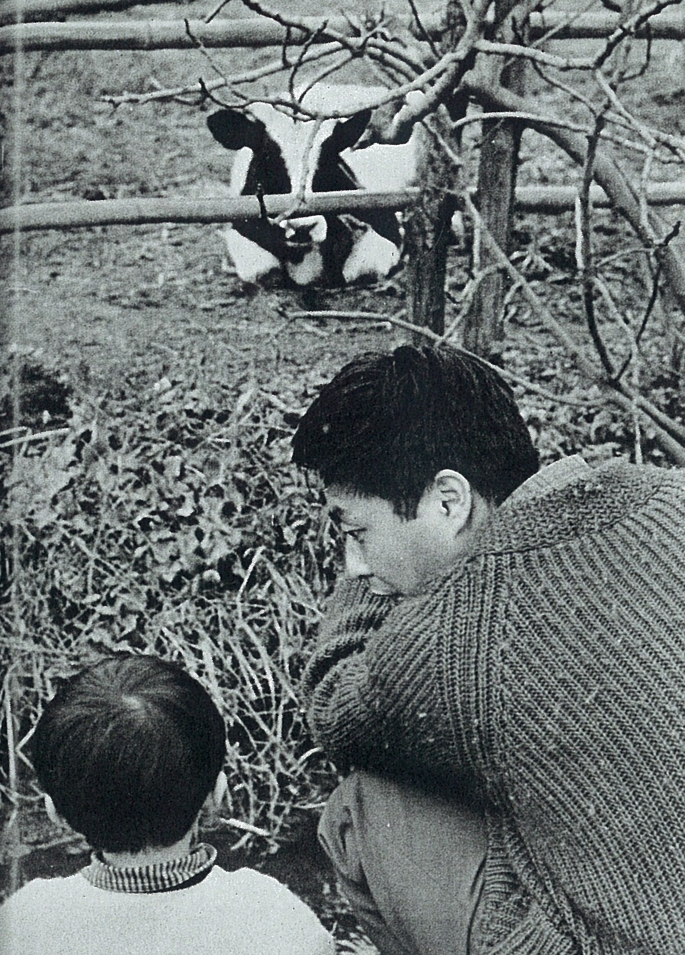 Kunio Komatsuzaki